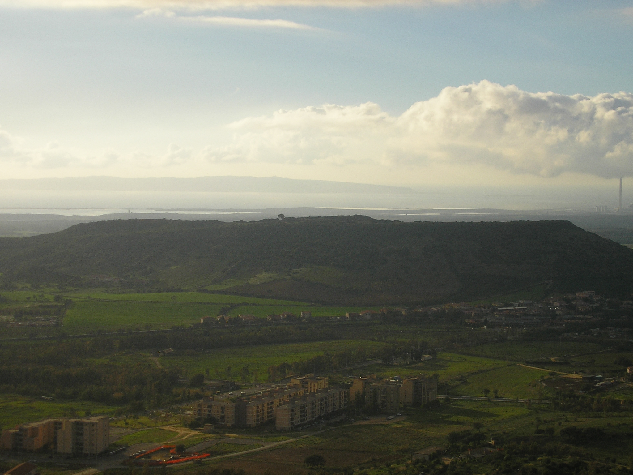 View of monte Sirai, in the suburbs of Carbonia, Sardinia, Italy, that hosts an important archaeological site.